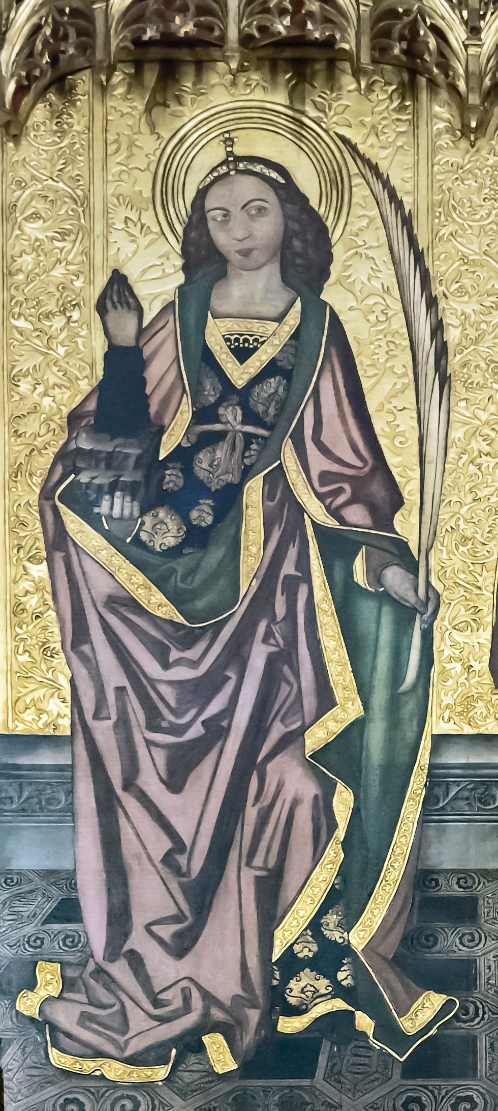 The Cathedral of the Holy Cross and Saint Eulalia in Barcelona. Chapel of Saint Sebastian and Saint Thecla. Saint Thecla 1486.